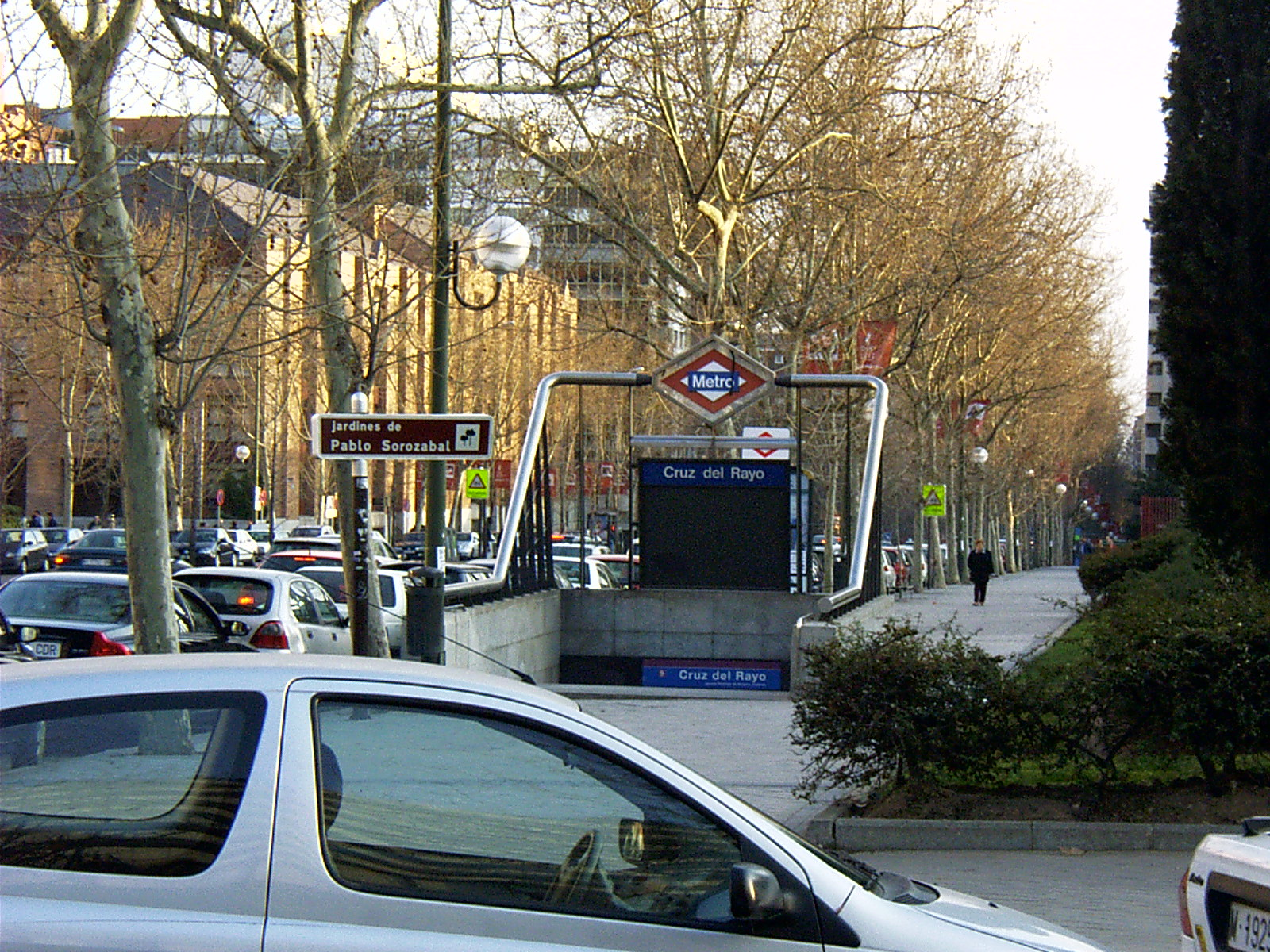 Entrance of the Cruz del Rayo metro station in Madrid.